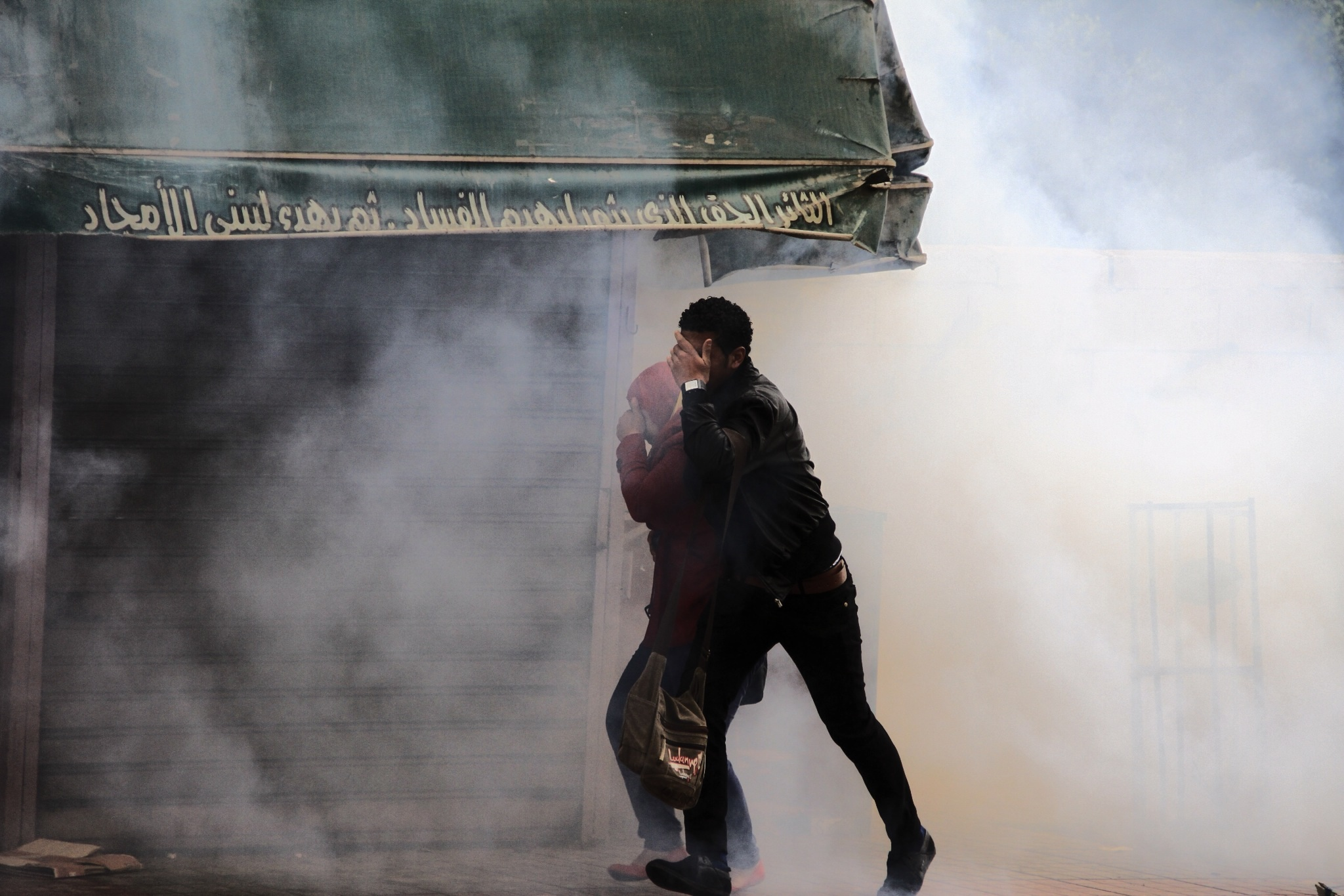 Original description: "People walk through a cloud of tear gas during protests at Al-Azhar University in Cairo, Dec. 11, 2013. (Hamada Elrasam for VOA)"